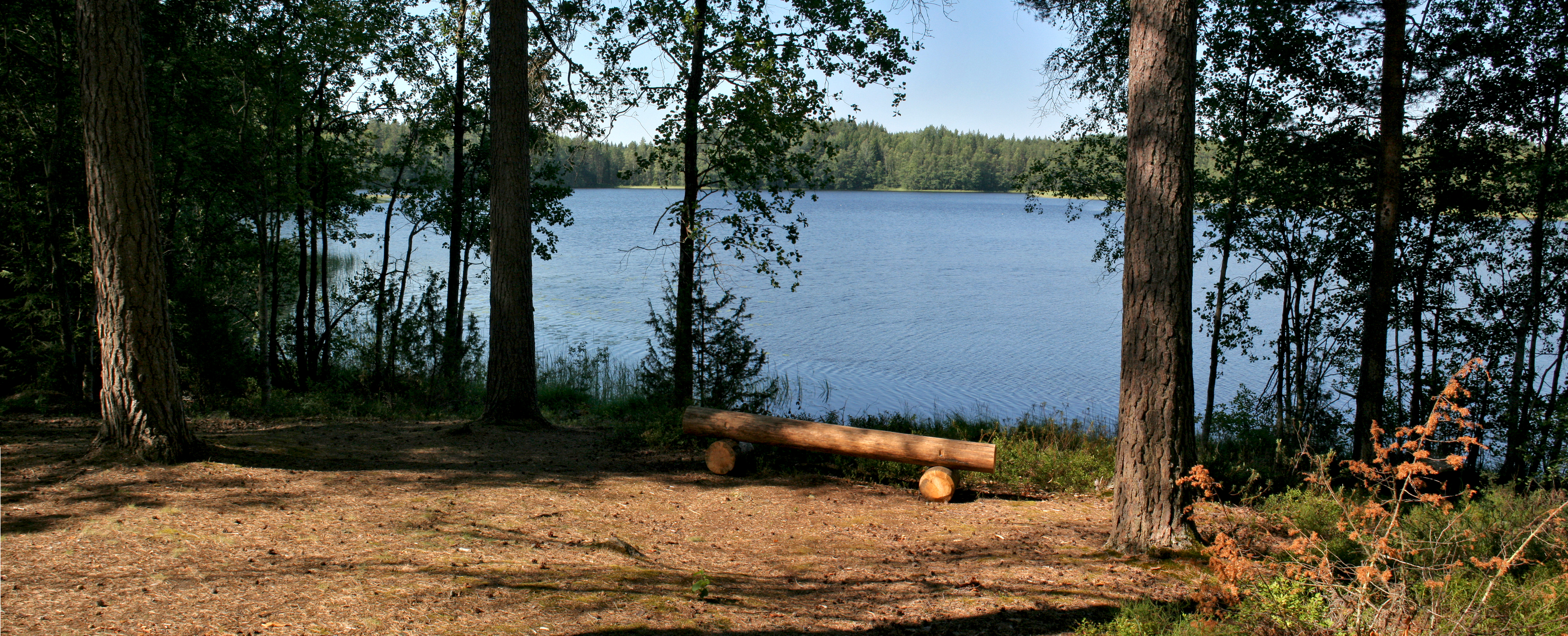 Lake Pääjärvi, resting place of treking route, view over lake to Kiilinsaari penisula